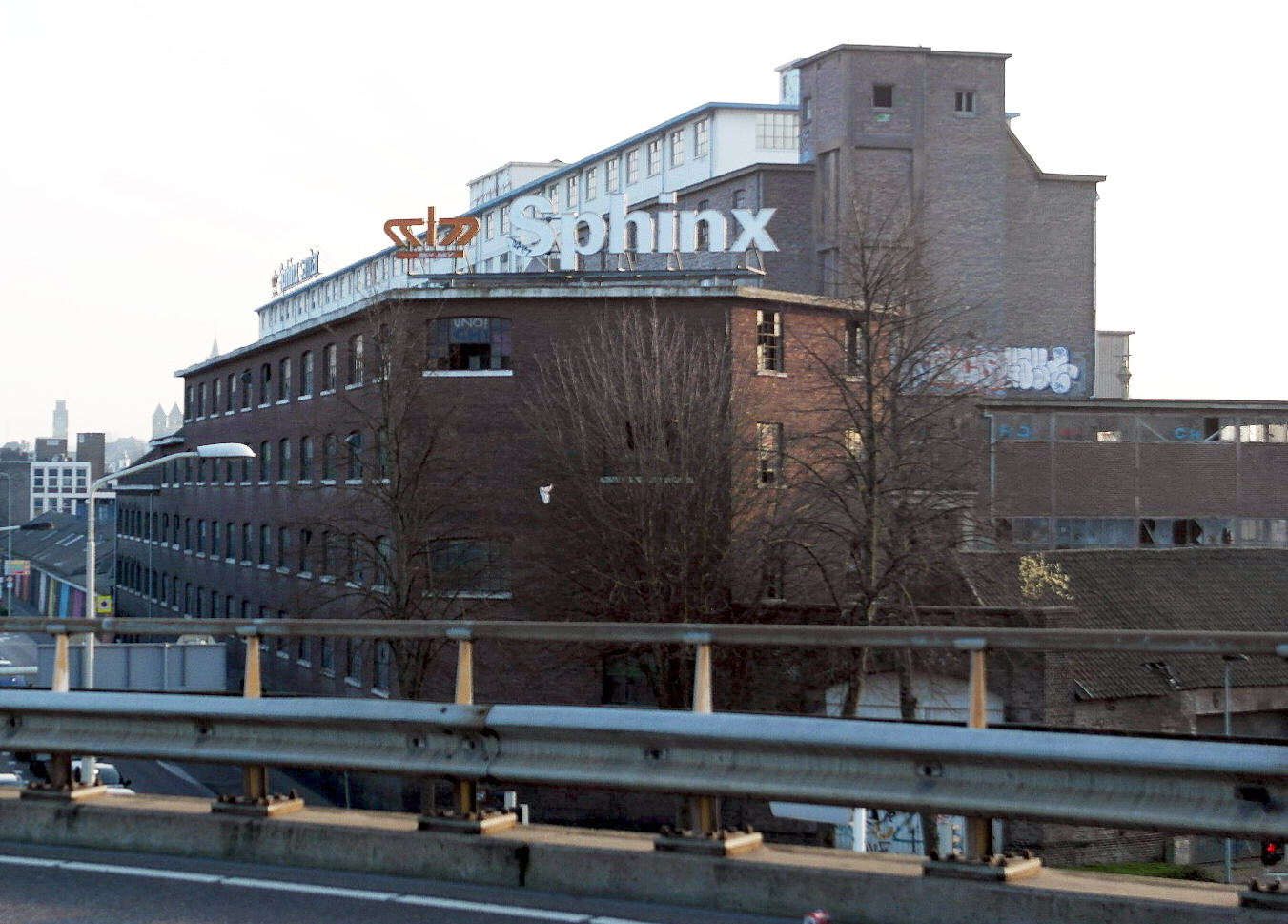 View of the so-called 'Kop van de Sphinx' buildings in Maastricht, Netherlands. These derelict factory buildings from the late 19th and early 20th century once belonged to Royal Sphinx potteries. In 2018 they are awaiting refurbishment as part of the redevelopment of Sphinxkwartier. The brick buildings are the Sanitairfabriek of 1916 (left), the taller Molengebouw of 1893/1918 (centre) and the Vormenmakerij of 1903 (right). In the background the white Eiffel building of 1929-41. The sliproad of Noorderbrug in the foreground was demolished in 2017.